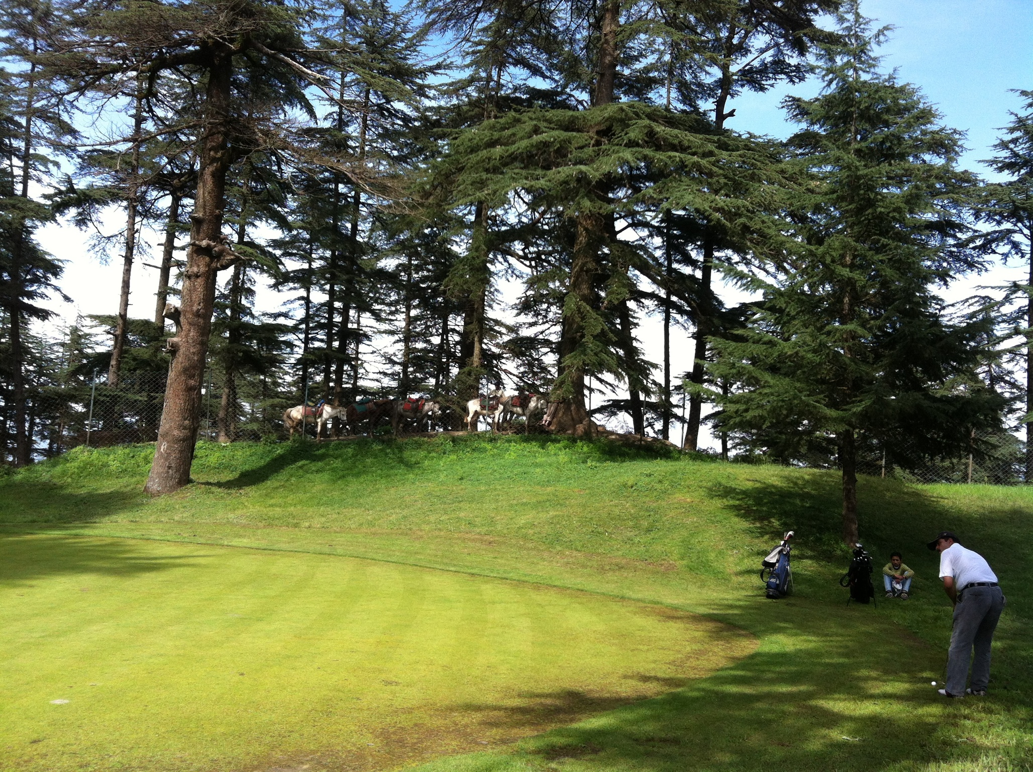 Shimla hilltop.